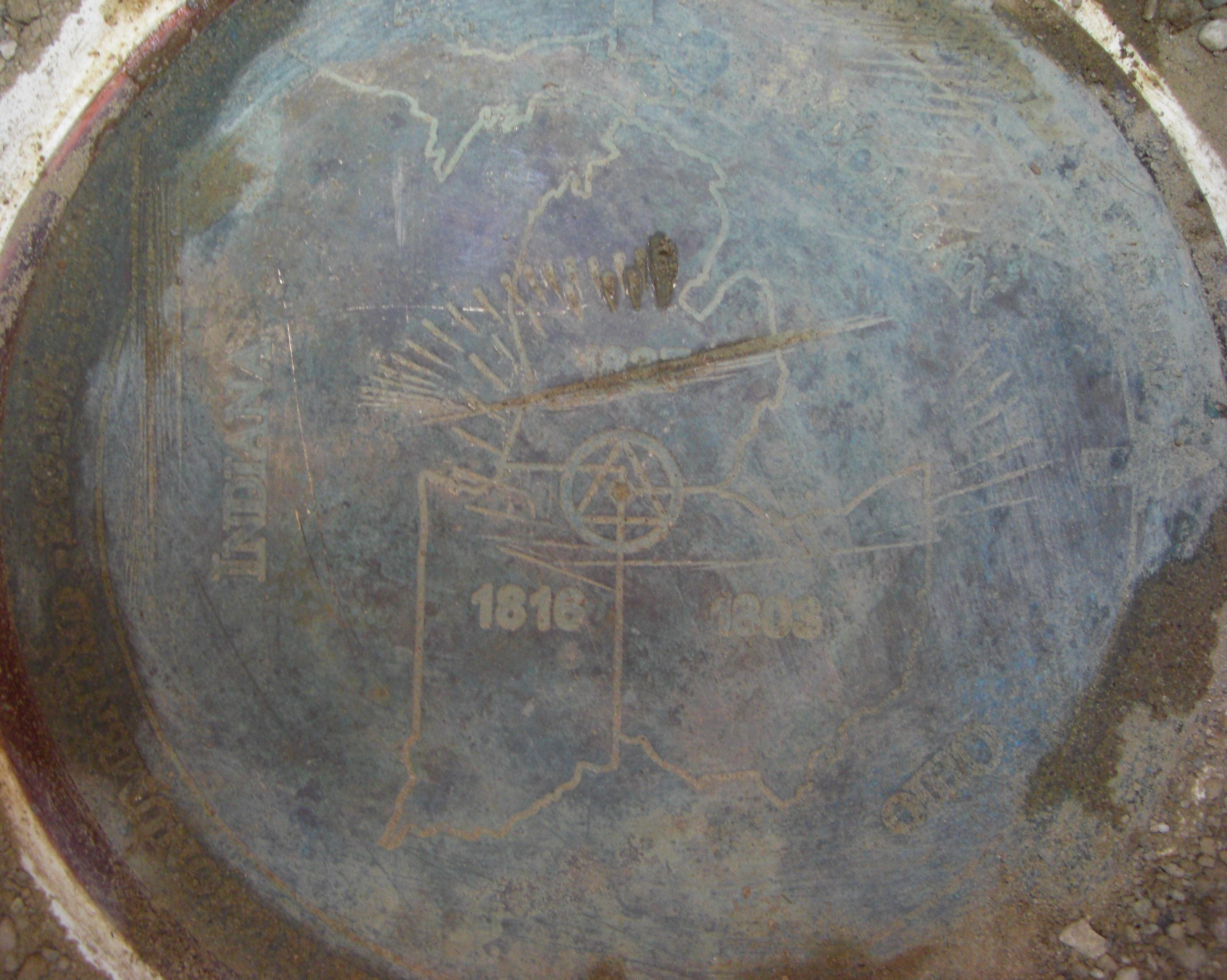 Self-photograph of the brass disc that marks the intersection of the U.S. states of Indiana, Michigan, and Ohio.